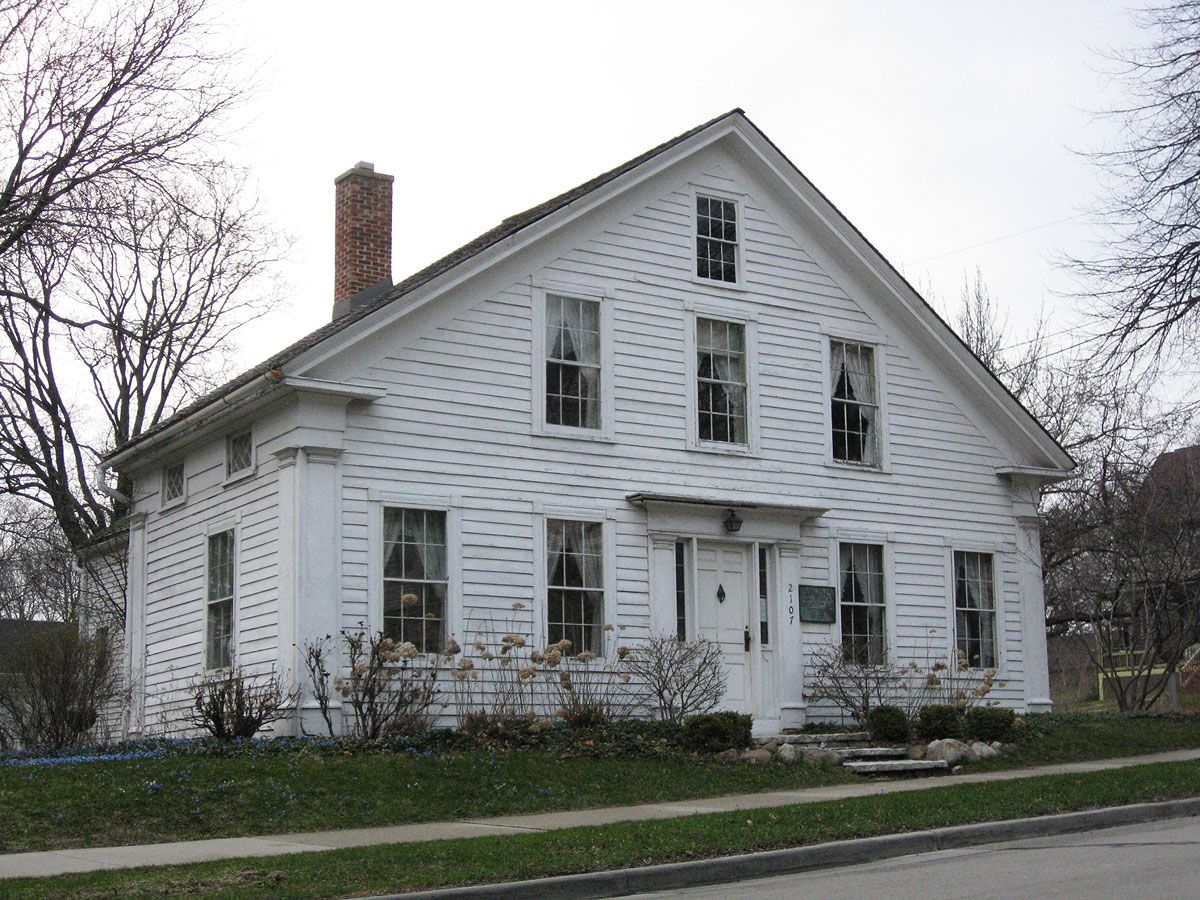 The Lowell Damon House — in Wauwatosa. I took this photograph and uploaded it on April 18, 2009.